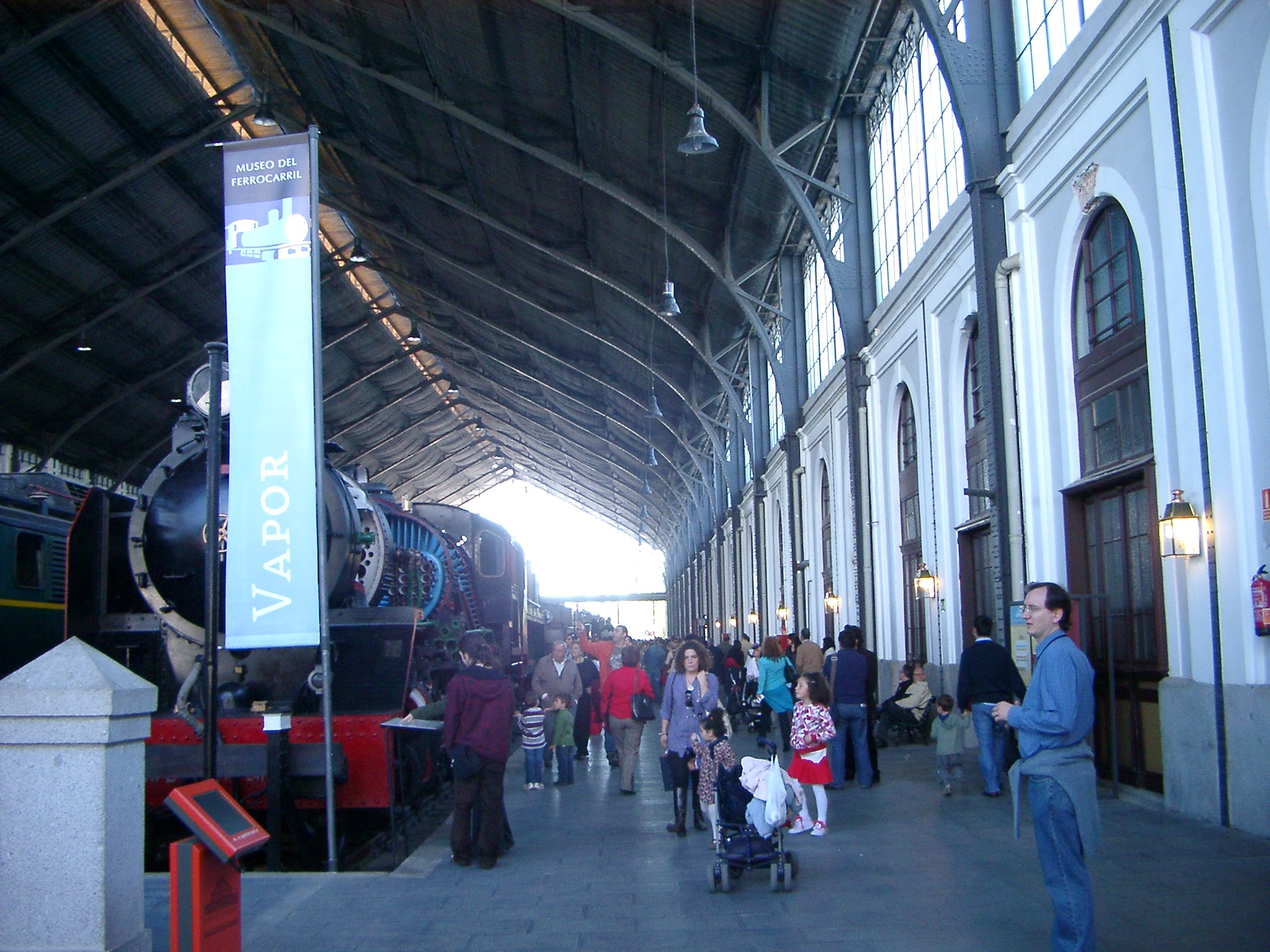 Madrid (Spain) Delicias Railway Station, interior view of train shed